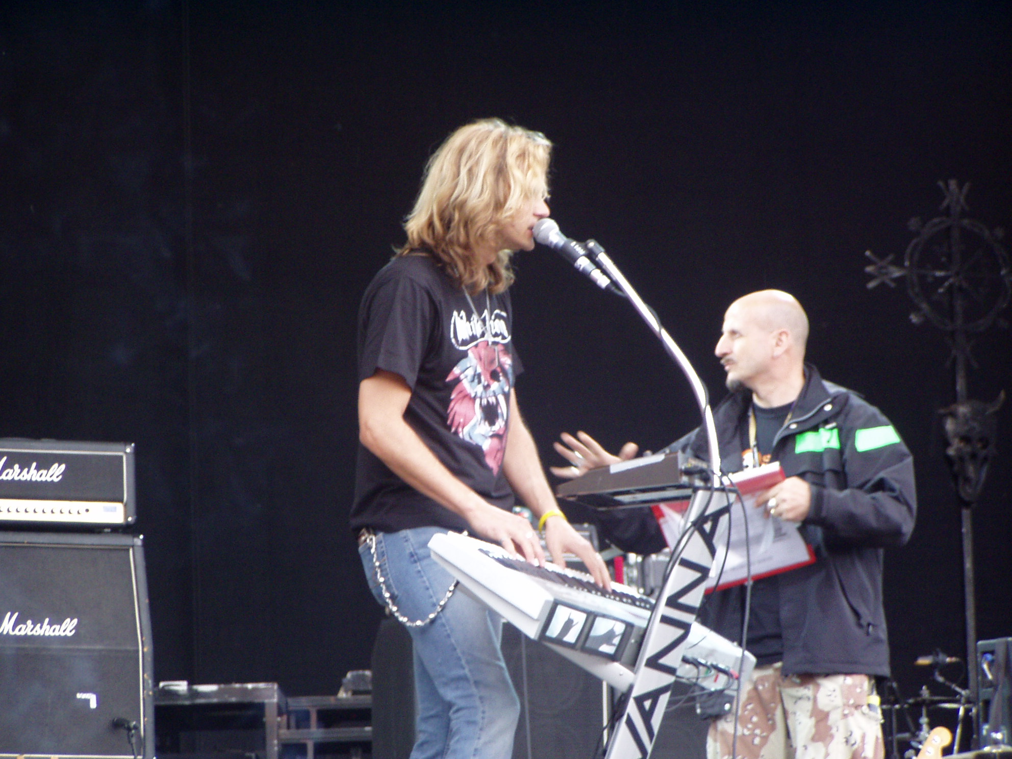 I White Lion al Gods of Metal 2007